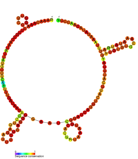 Secondary structure and sequence conservation image for PCGEM1 non coding RNA (RF01981). Nucleotide colouring indicates sequence conservation between the members of this family.